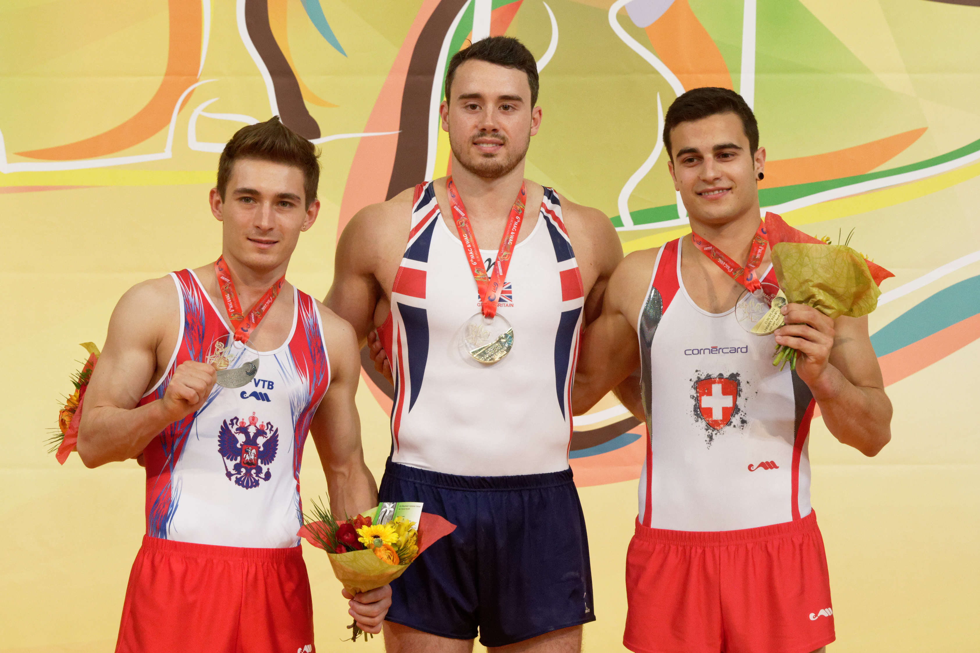 2015 European Artistic Gymnastics Championships. Pommel horse.